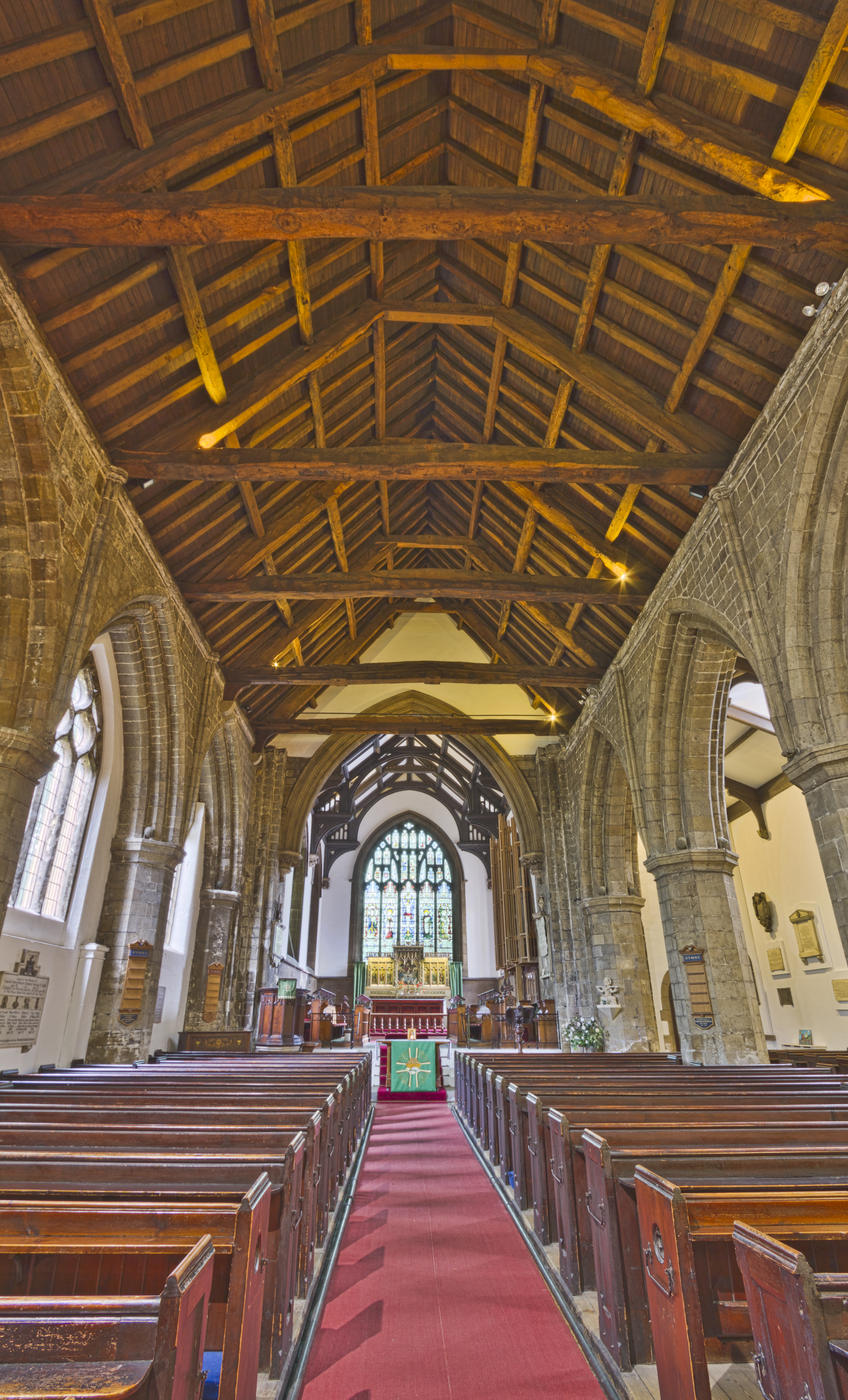 Here is an hdr photograph taken from The Priory Church of the Holy Trinity. Located in York, Yorkshire, England, UK.